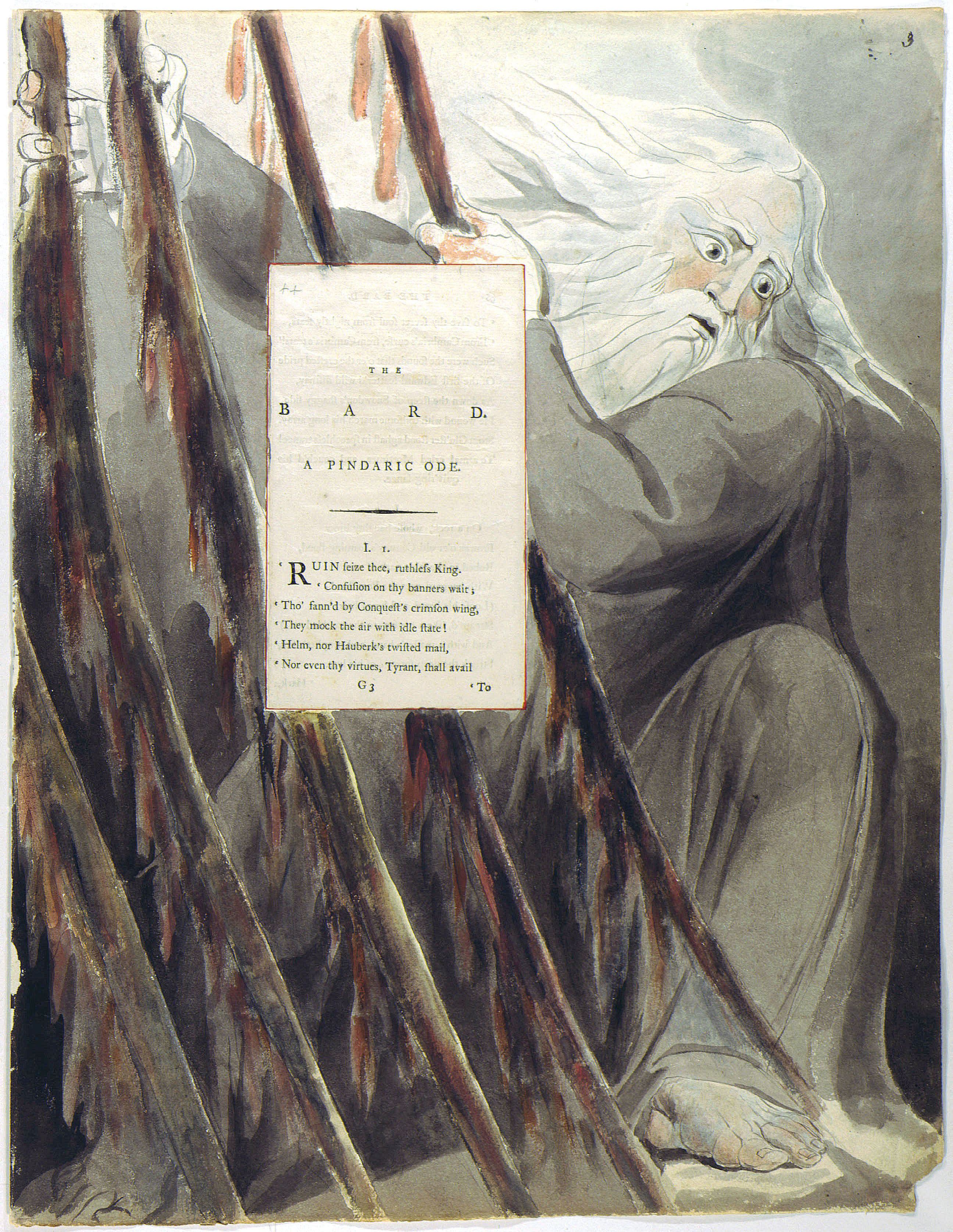 William Blake - The Poems of Thomas Gray, Design 55 The